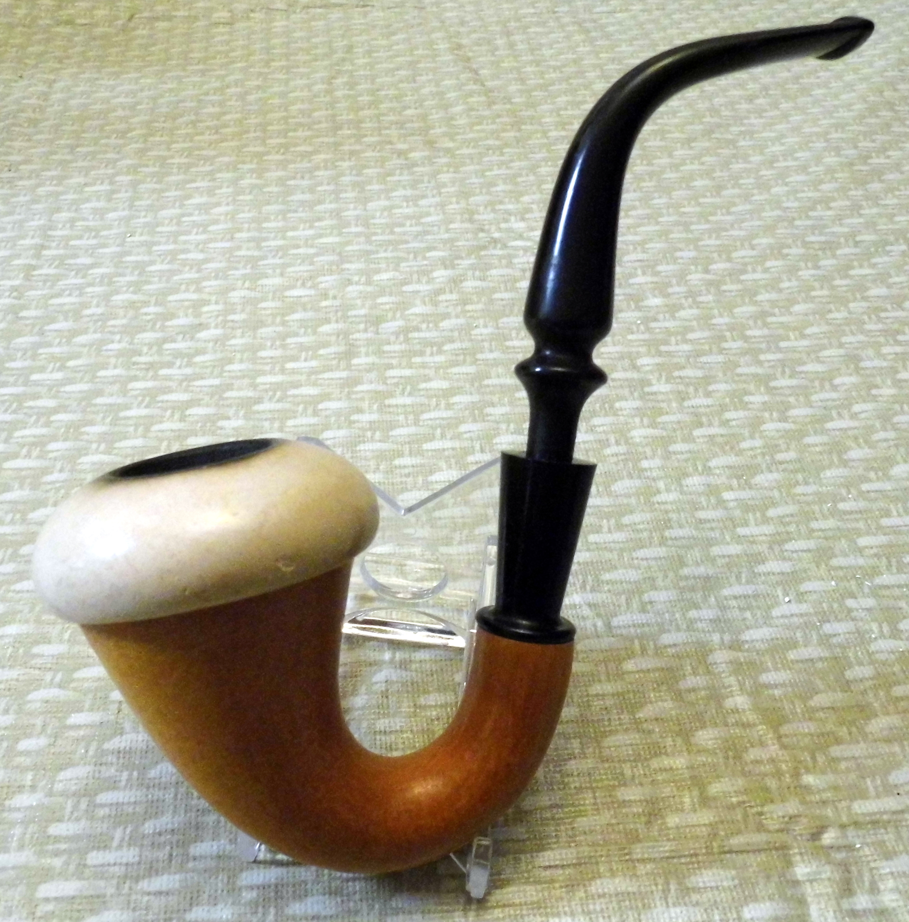 Vintage Calabash Tobacco Pipe With Meerschaum Bowl, Sherlock Holmes Style Pipe